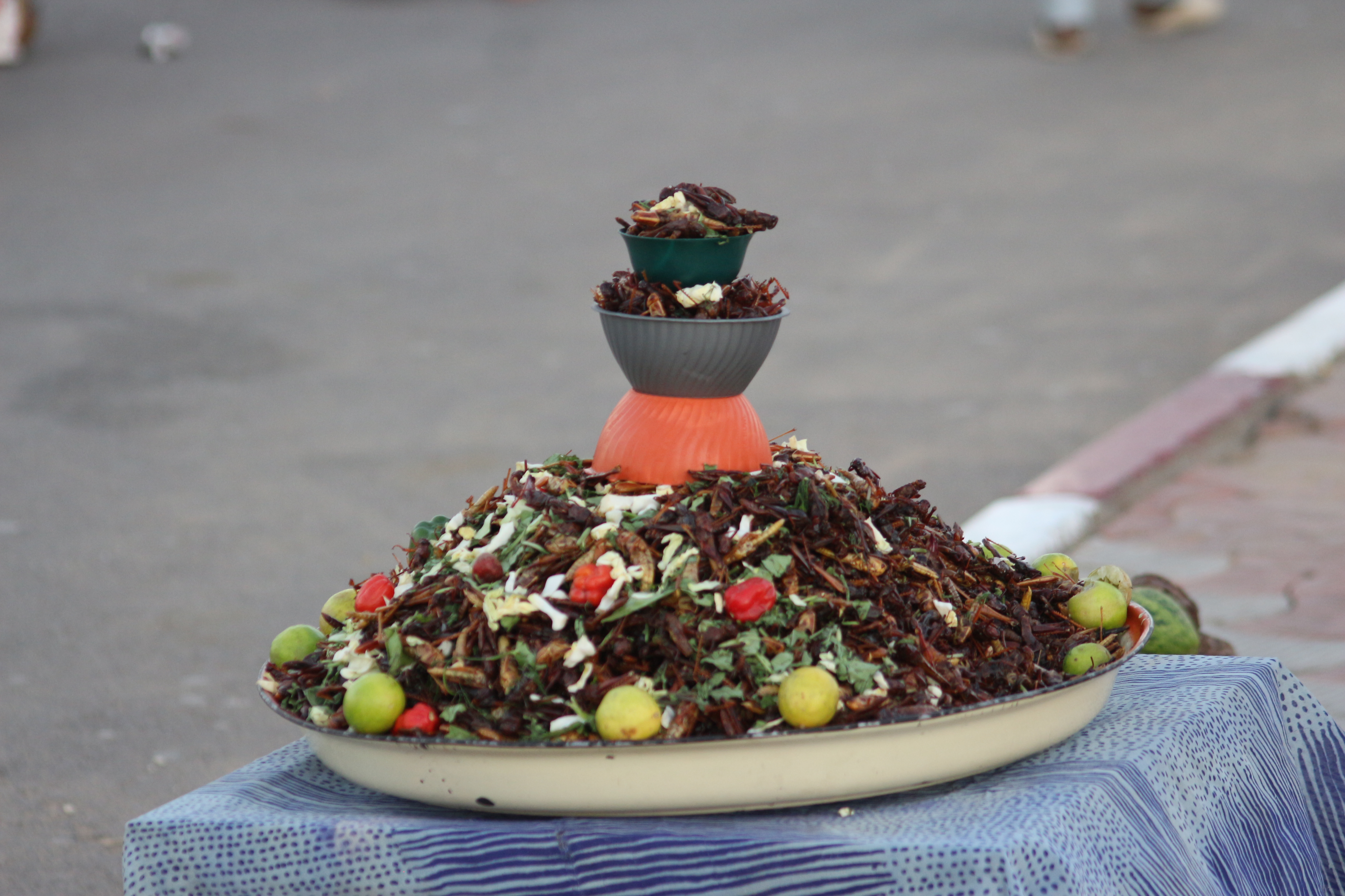 Criquets fris du Tchad